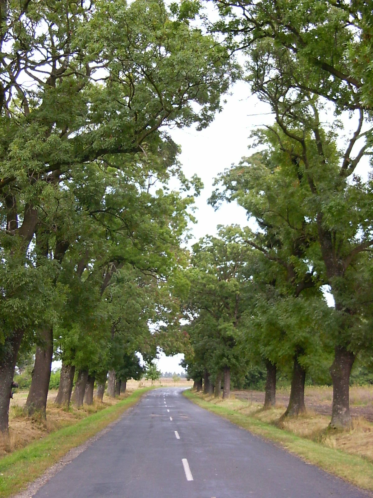 Old trees at the road to Csáfordjánosfa